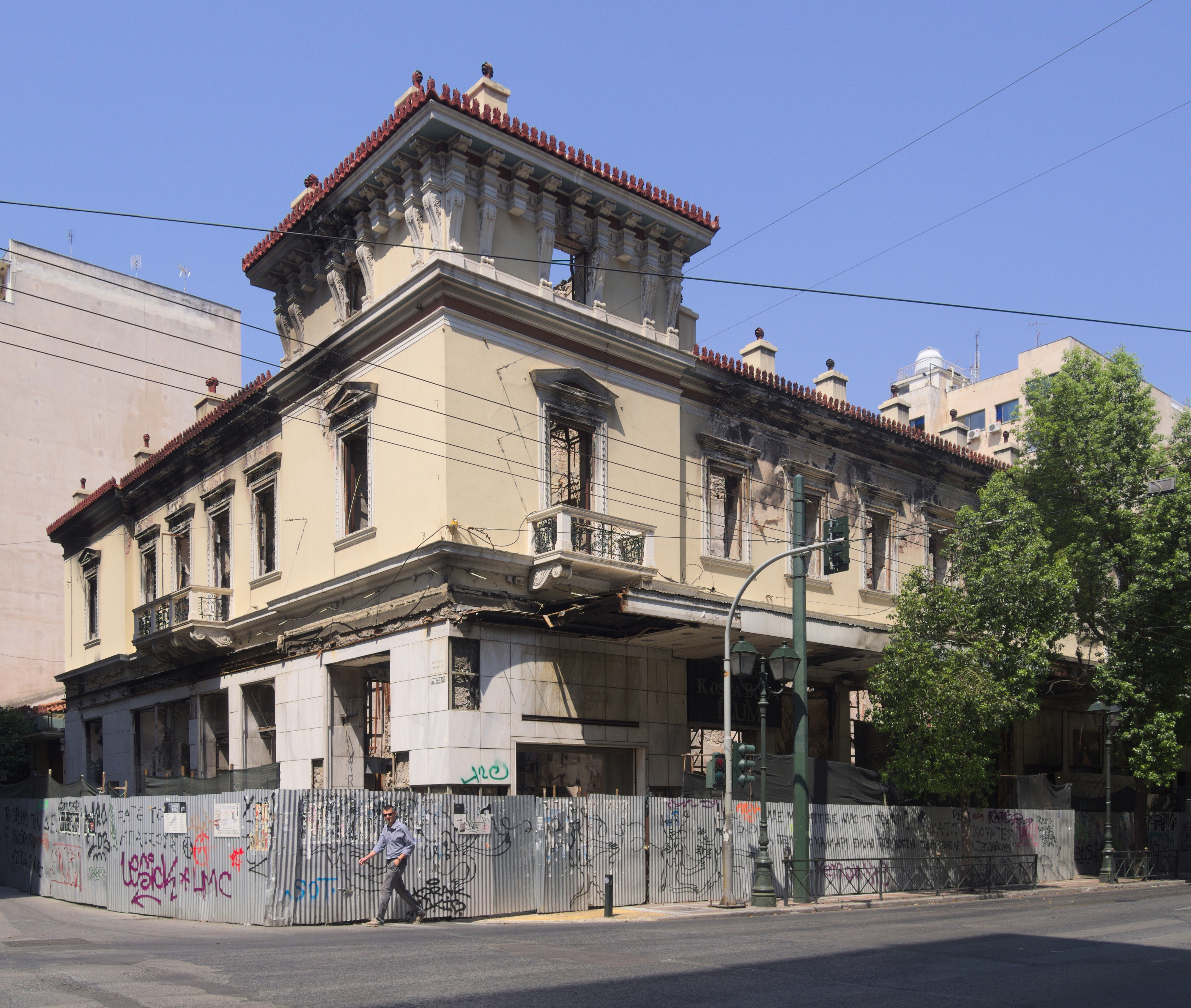 Atticon movie-theatre, Stadiou street Attica. The current building was constructed in 1870-1920, based on Ernst Ziller designes and later on ones by Alexandros Nikoloudis (1874-1944). The building was victim of an arson during riots in Athens on the 12th February 2012, when the second support programm/Memorandum was voted at the greek parliament. Three years later the building is still in the same condition that it was back in 2012 (as the economy of Greece, with the greek parliament voting for the third support programm/Memorandum the day after this photo was taken).